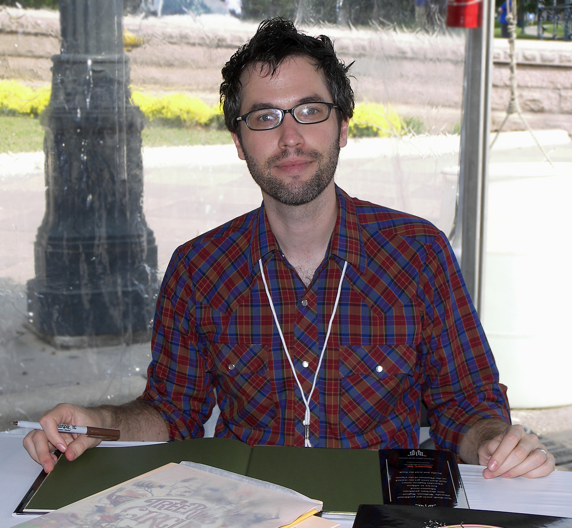 Adam Rex at the 2007 Texas Book Festival, Austin, Texas, United States.